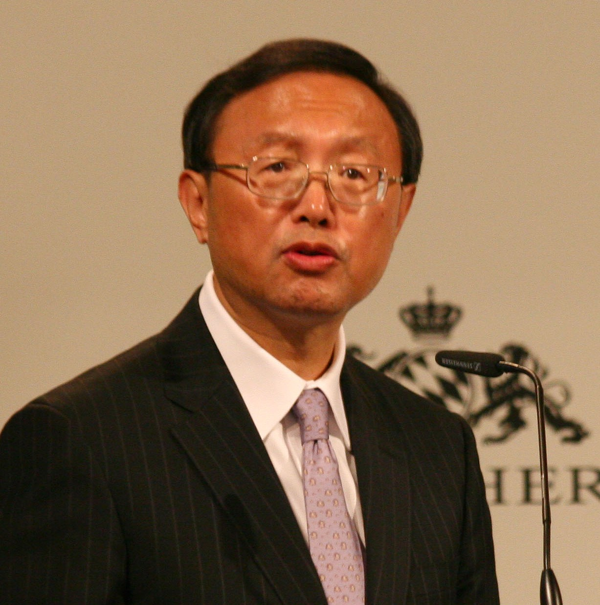 46th Munich Security Conference 2010: Jiechi Yang, Minister of Foreign Affairs, People's Republic of China.